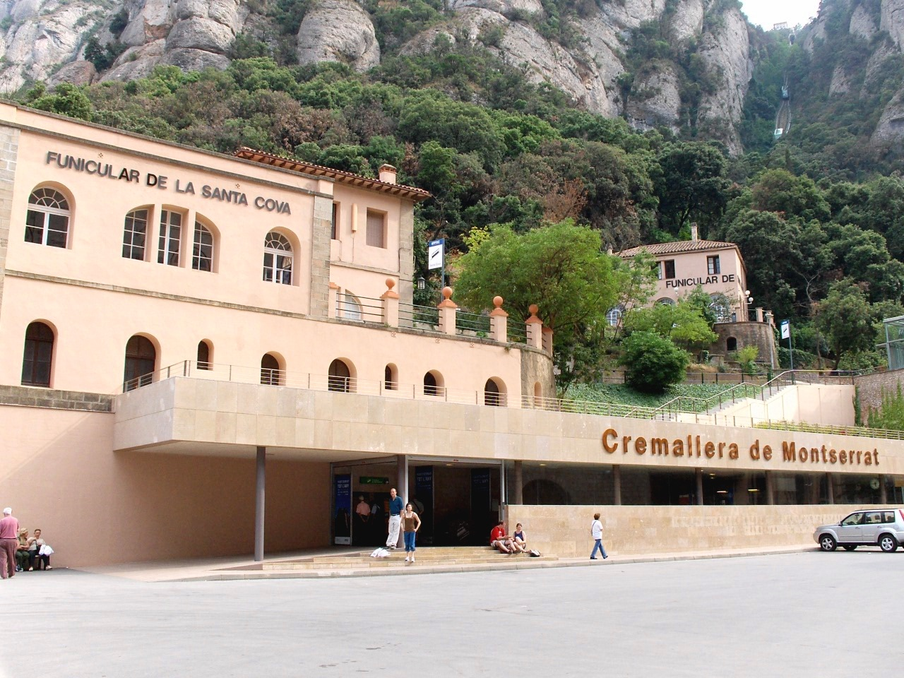 The building of Cremallera de Montserrat (Montserrat Rack Railway) and funicular railways.